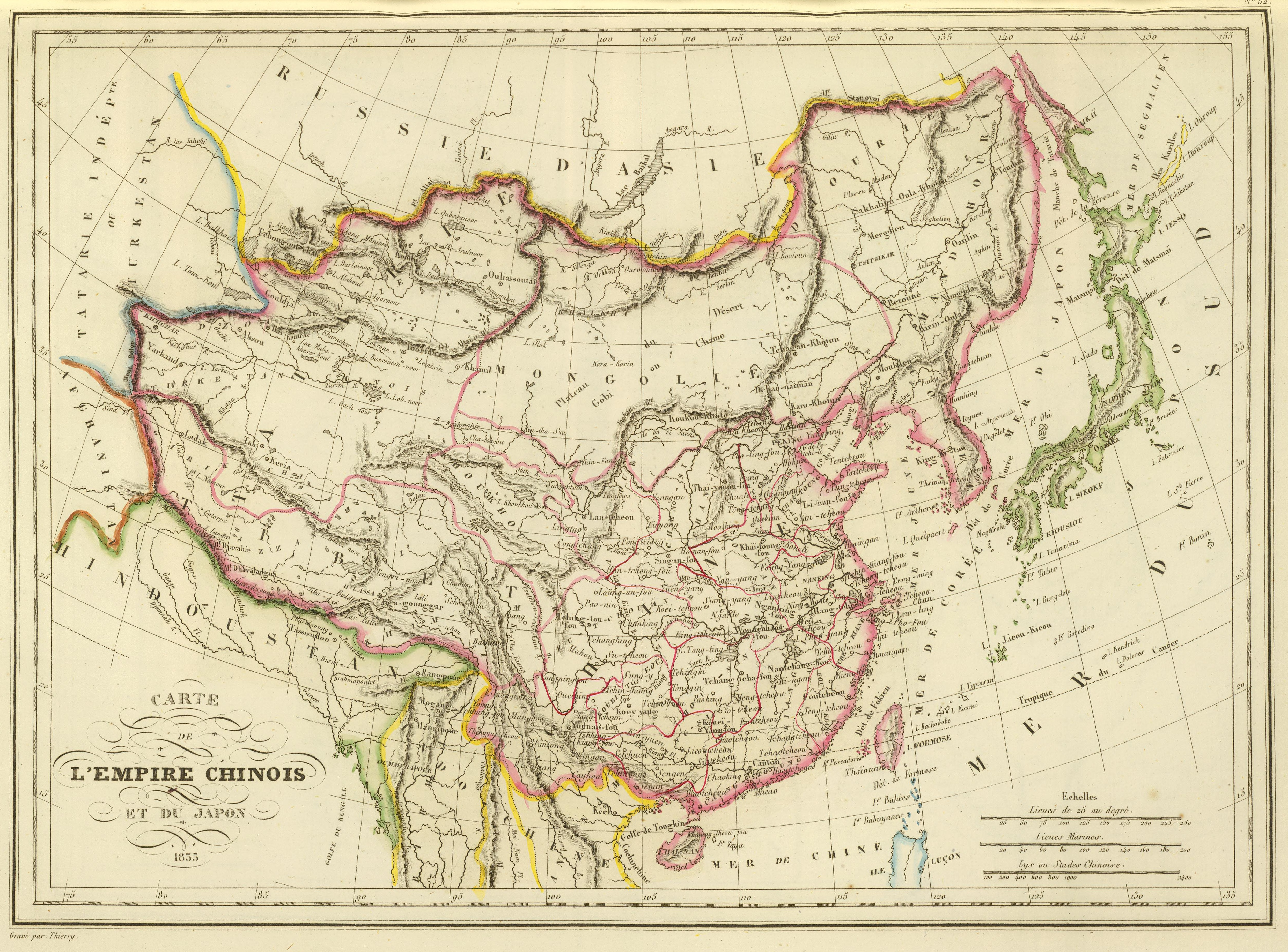 A French map of the Chinese Empire [together with] Japan, in the year 1833, by Conrad Malte-Brun [born and also known as Malthe Conrad Bruun ], published in the year 1837 by [ Furne et Cie and Aimé-André, Paris].